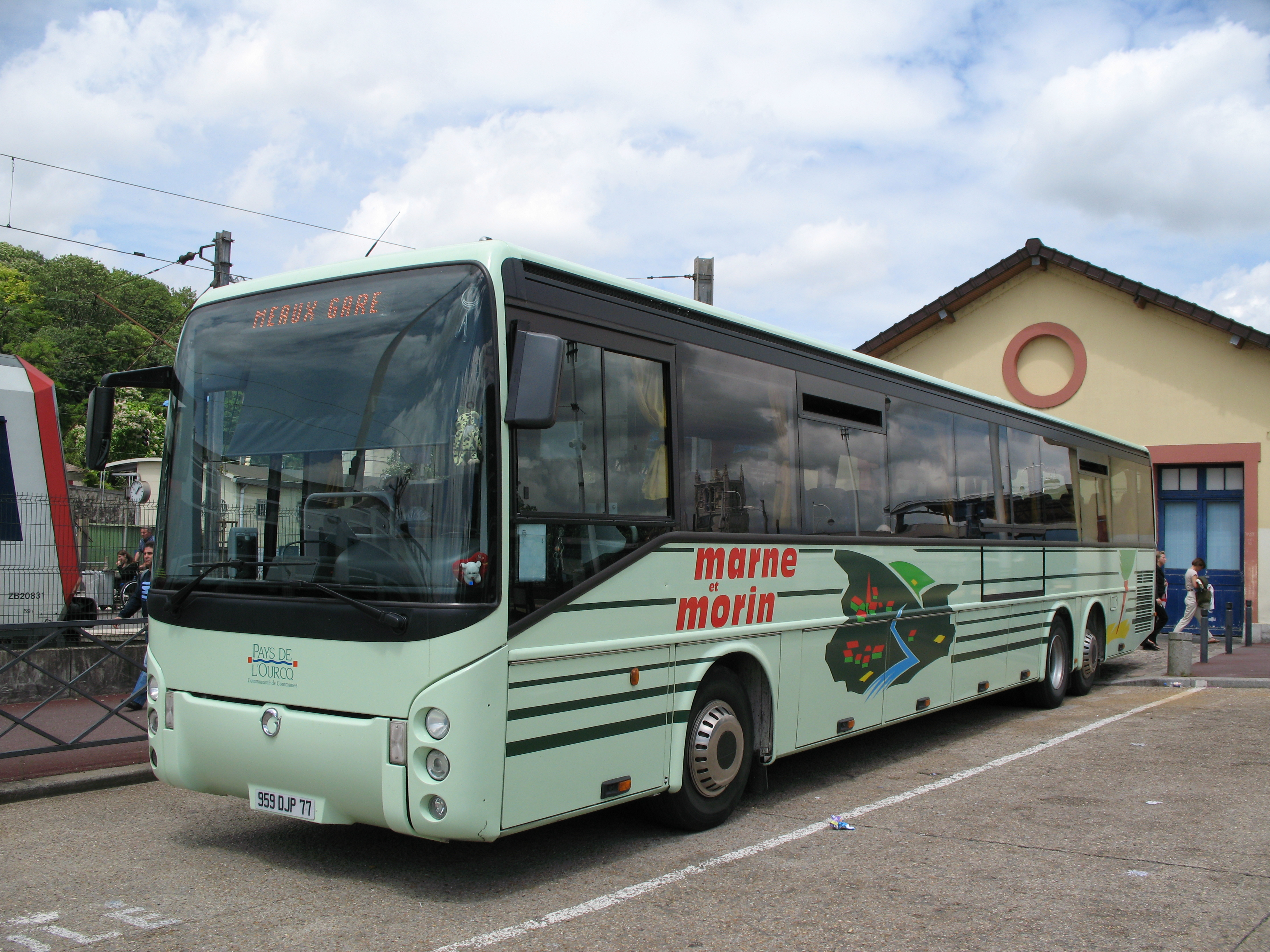 A suburban bus of the Marne et Morin Company in Meaux_France.